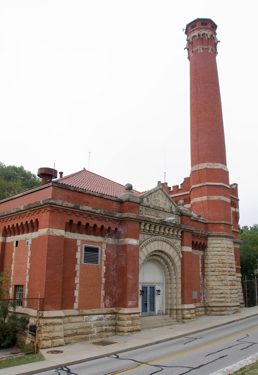 Eden Park Station No. 7 in Cincinnati, OH. Photo by Greg Hume